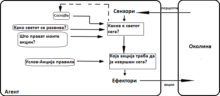 Intelligent agent